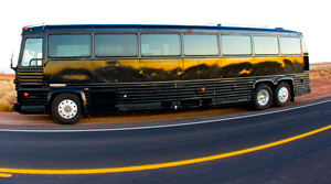 Motor Coach Industries MCI-9 bus powered by a rear-mounted 8V-71 Detroit Diesel engine.